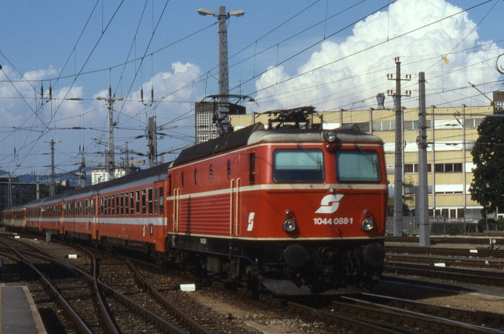 1044.088 pulling into Linz Hbf on 8 August 1988. Scanned from Kodachrome 64 35mm transparency and cropped